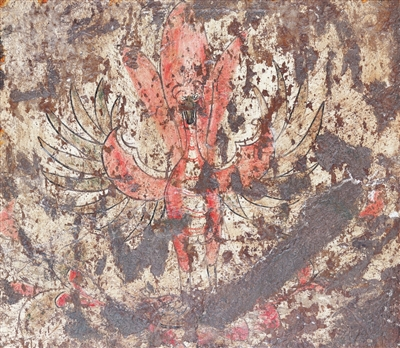 Mural of a vermilion bird, from the Sogdian tomb of Shih So-yen.